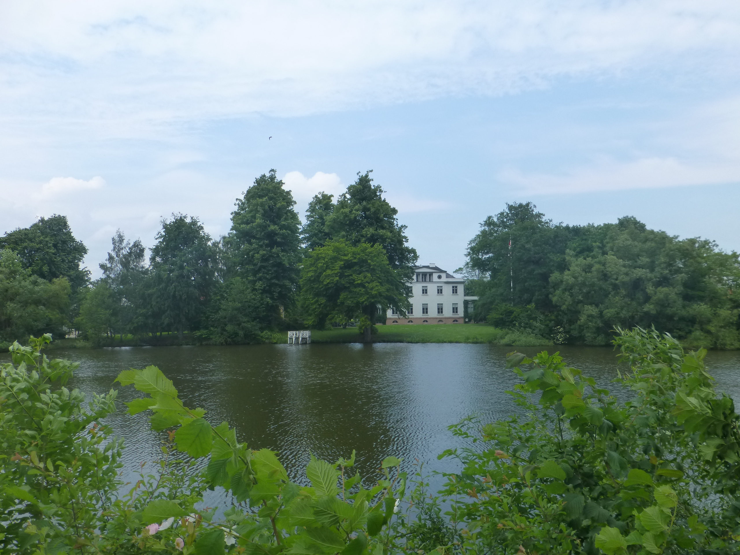 The lake Emdrup Sø in Østerbro in Copenhagen.